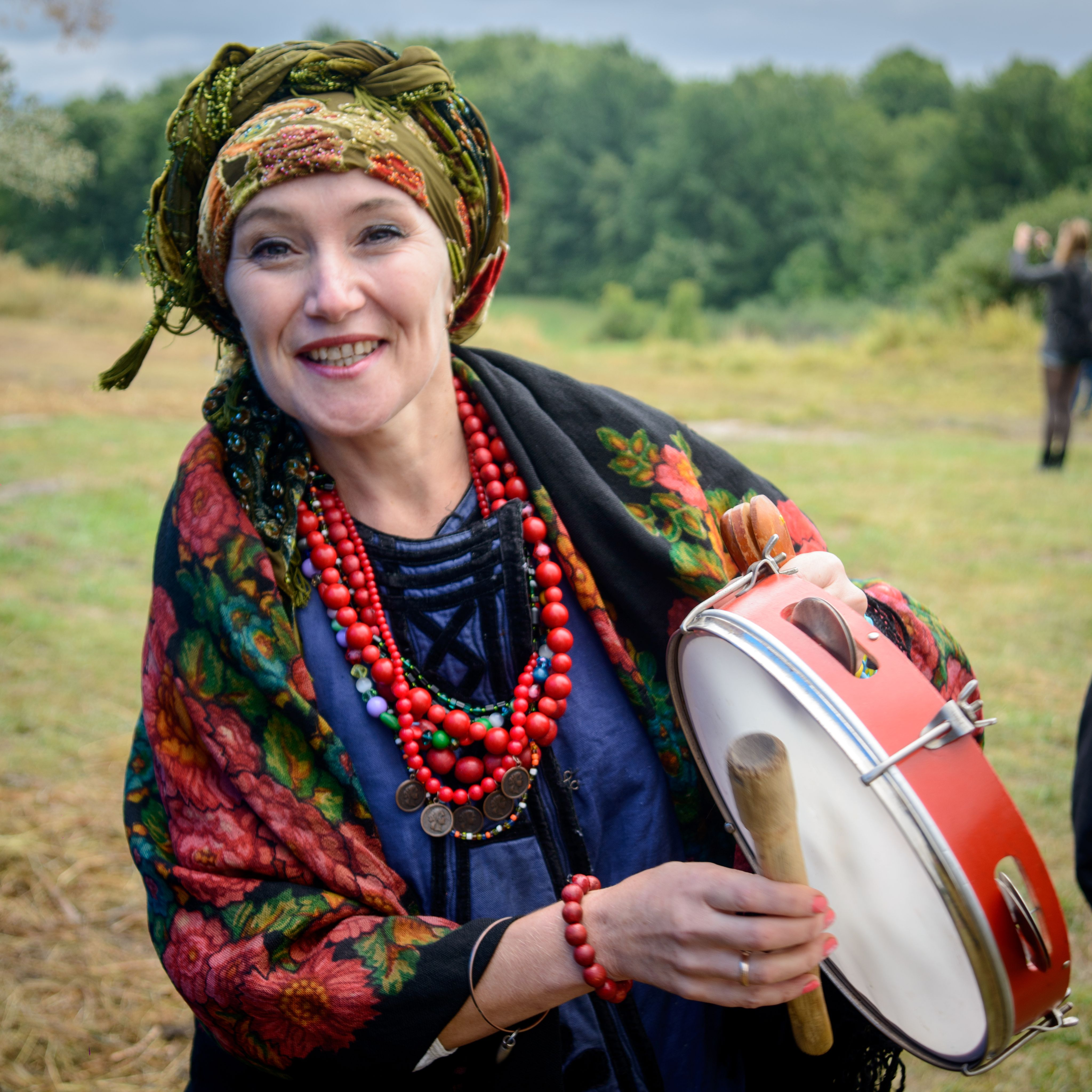 Folk. Wikiexpedition to Fest "Borschyk in clay pot". Poltava region